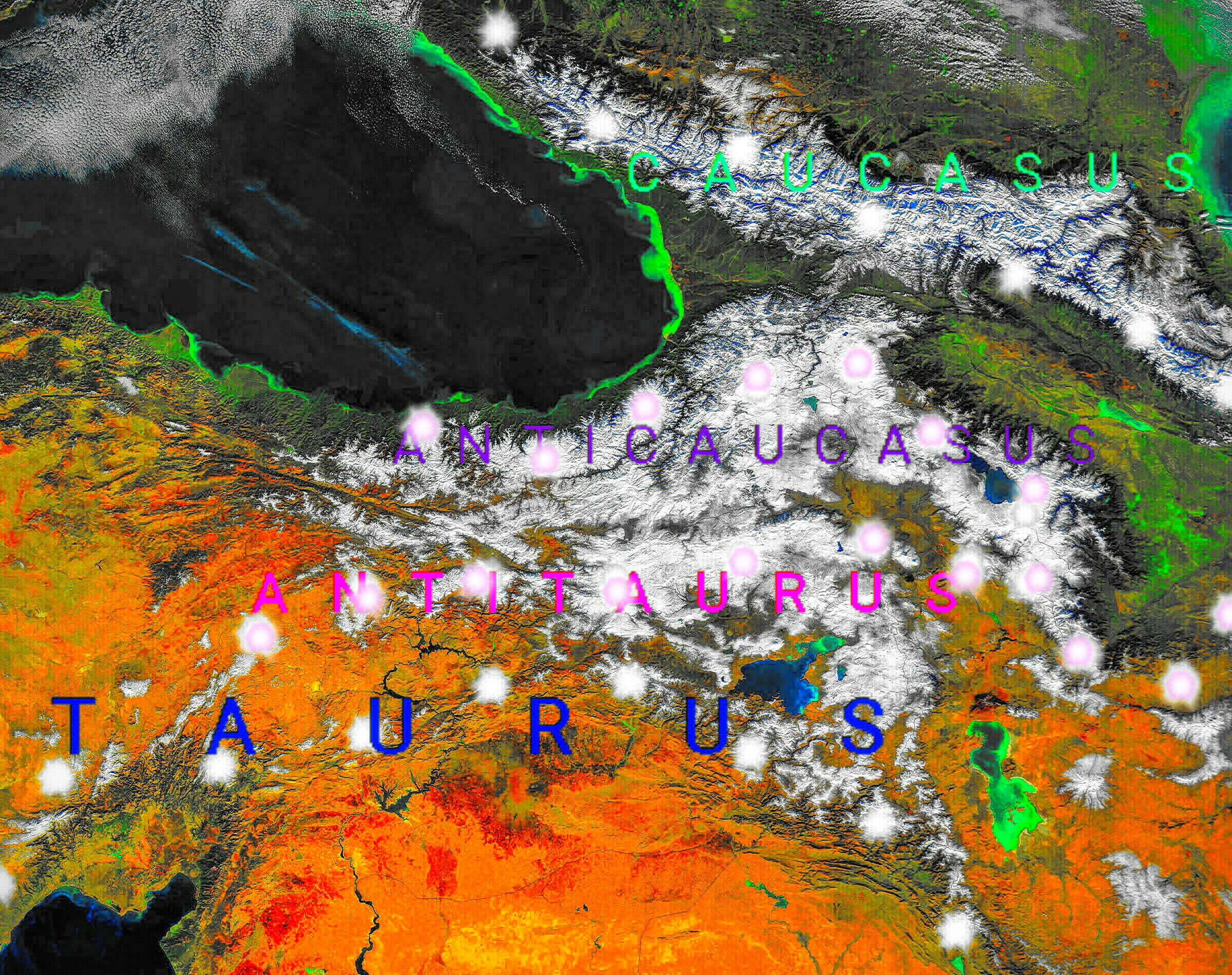 NASA's space satellite photo image of the Armenian highland and Caucasus mountains, which turned into map with descriptions of the geographical areas of this region.